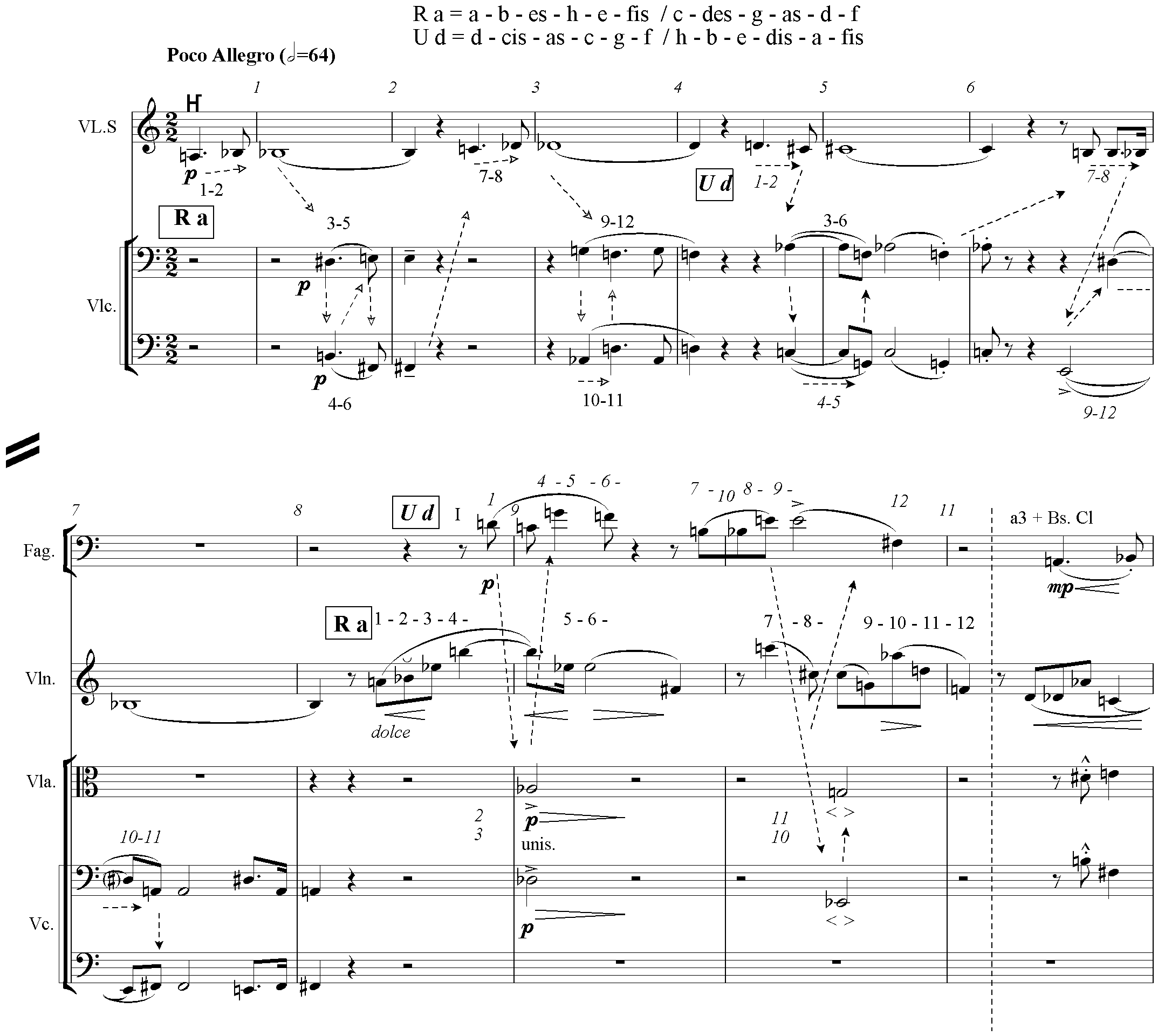 Schoenberg Violin Concert